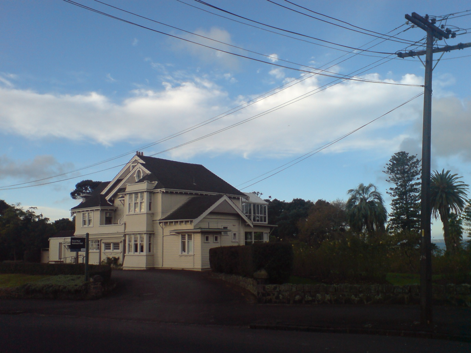 The Parnell Rose Gardens, main building, Auckland, New Zealand. Seen from Gladstone Road.